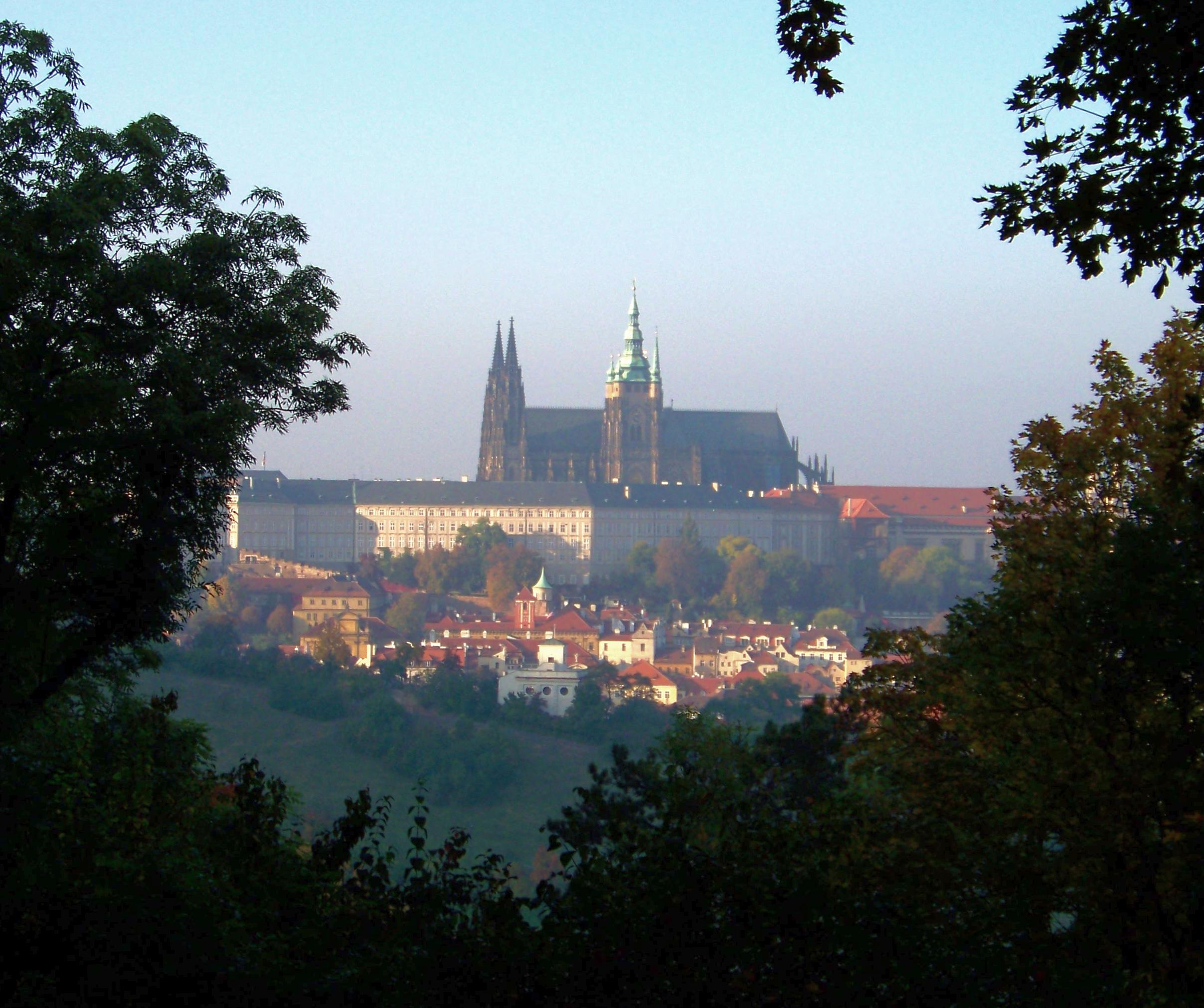 Prague, the Czech Republic, Petřín Hill, a view of Prague Castle and Malá Strana.